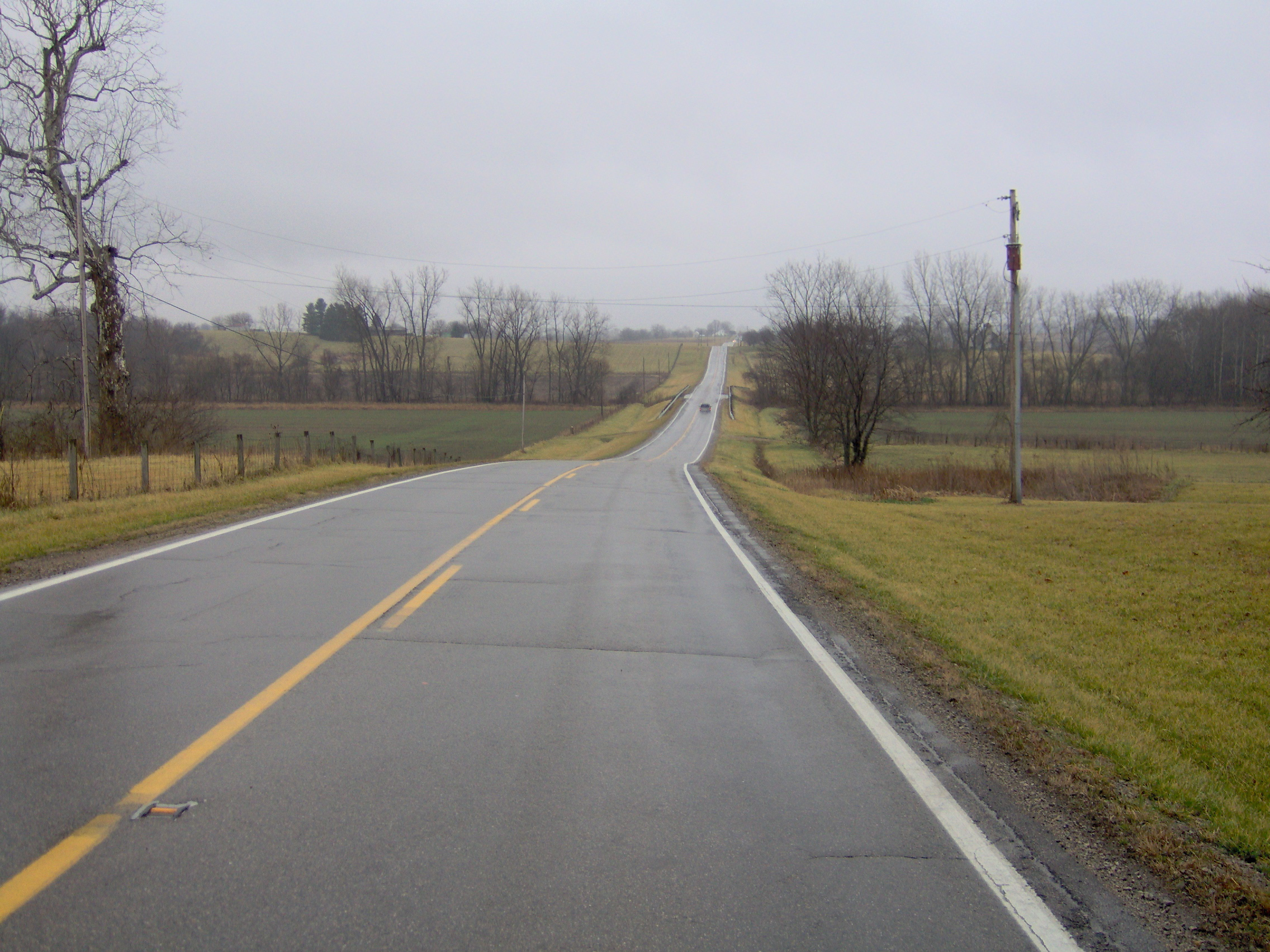 Looking eastward along Ohio State Route 180 in Green Township of Ross County, Ohio, slightly east of Dry Run Road. Picture taken by Nyttend on Christmas Day 2006.